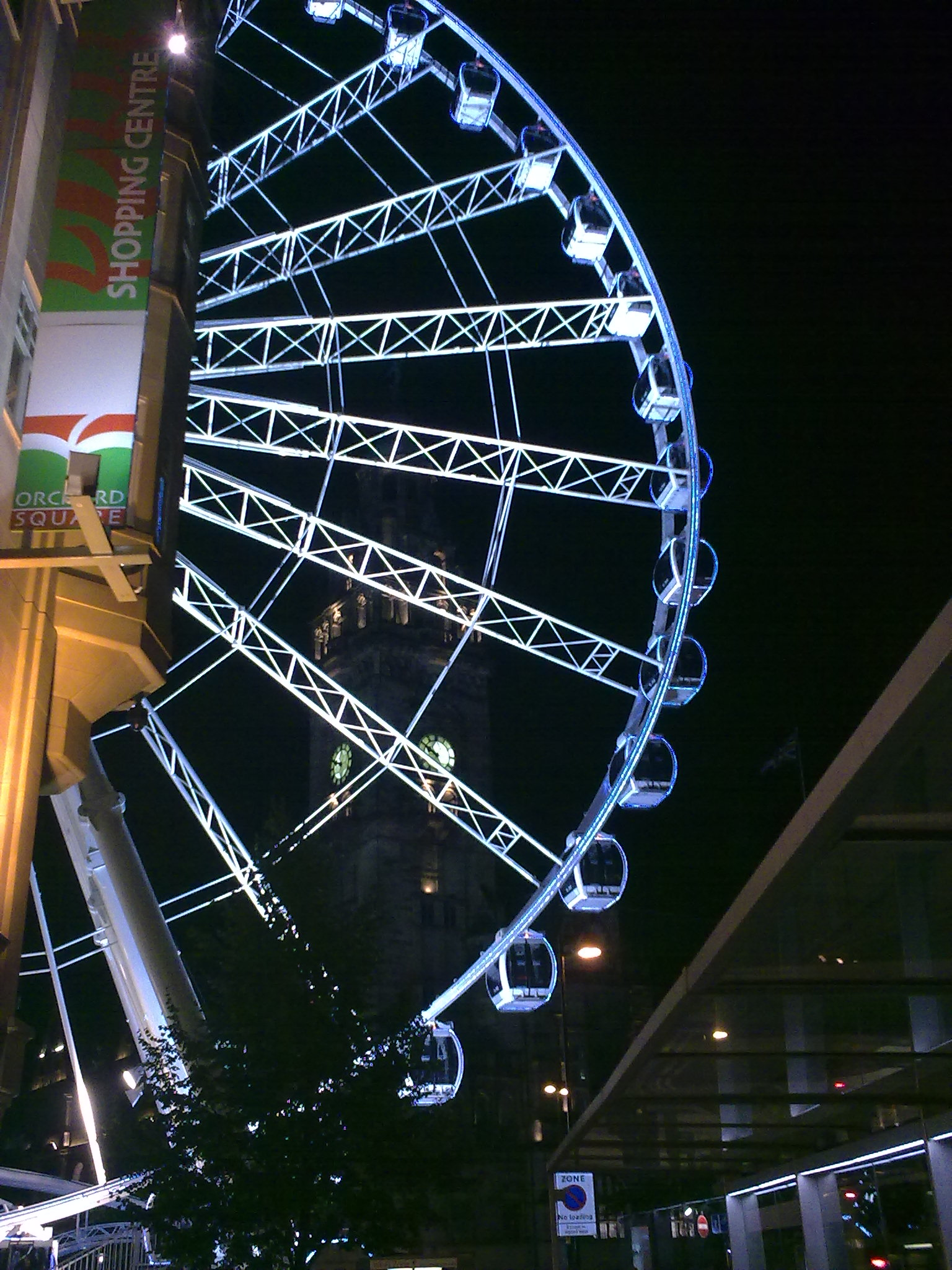 The ferris wheel located at the top of Fargate, Sheffield, England.